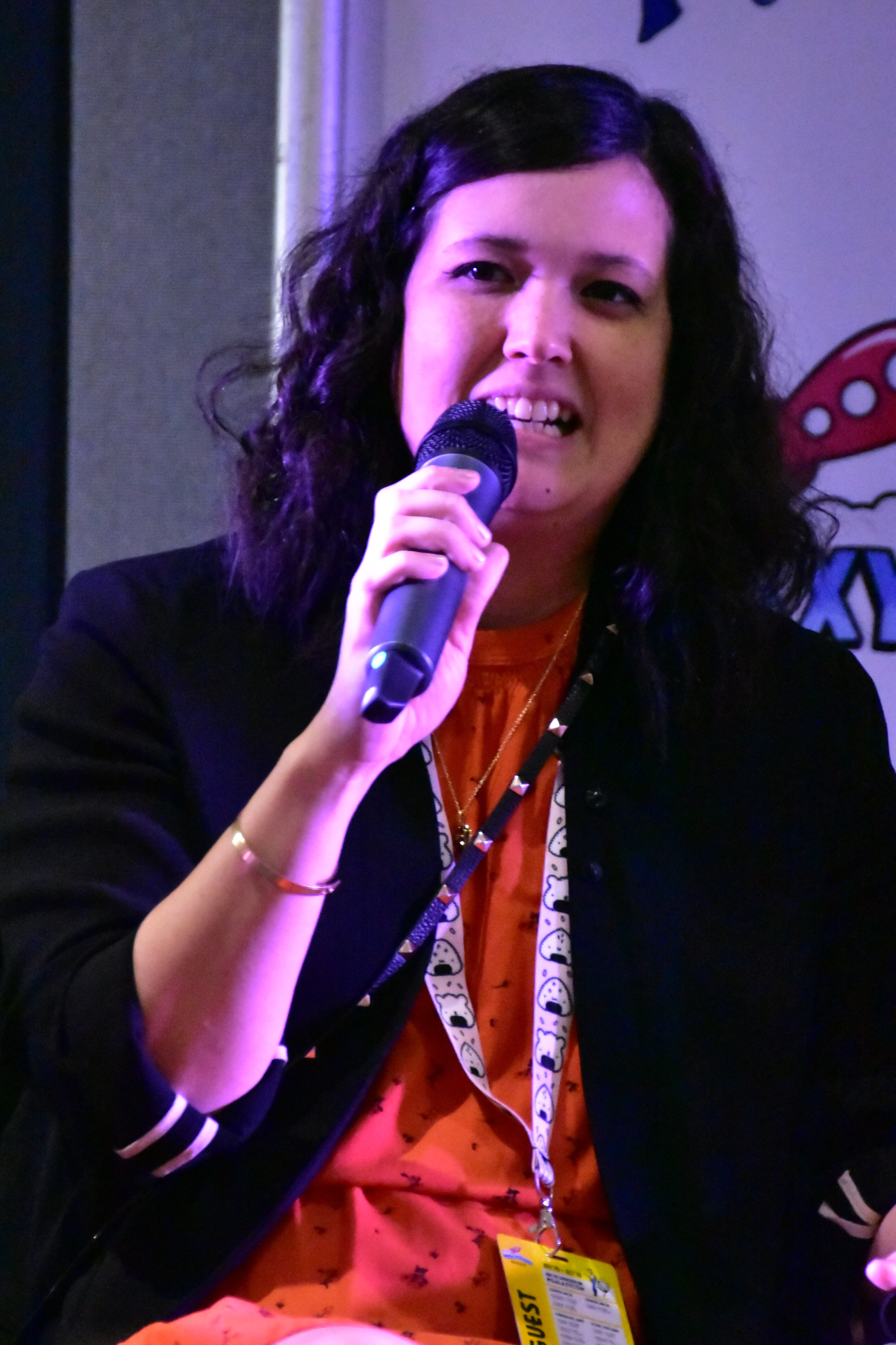 Emi Lenox at GalaxyCon Raleigh in 2019